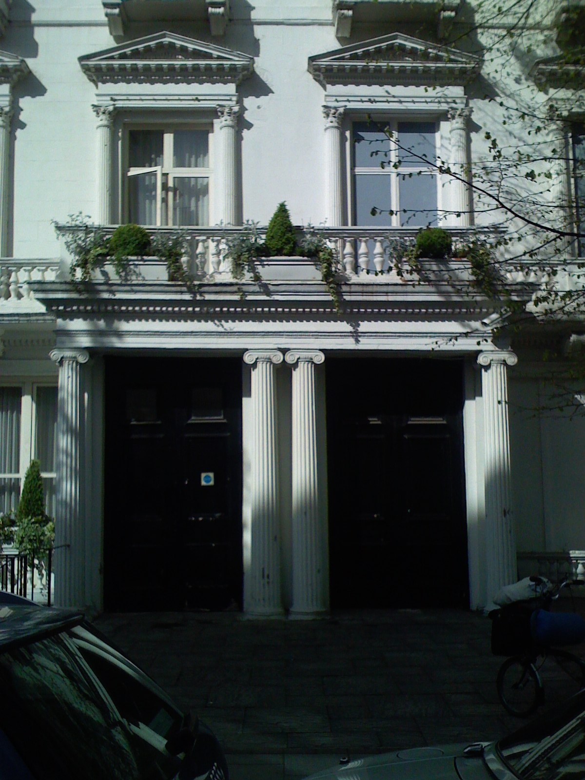 Two facaded buildings exist in London. This picture shows one of the facades (right) and a neighbouring property (left) to contrast the real and painted windows. The facades are to hide a London Underground cutting from view.